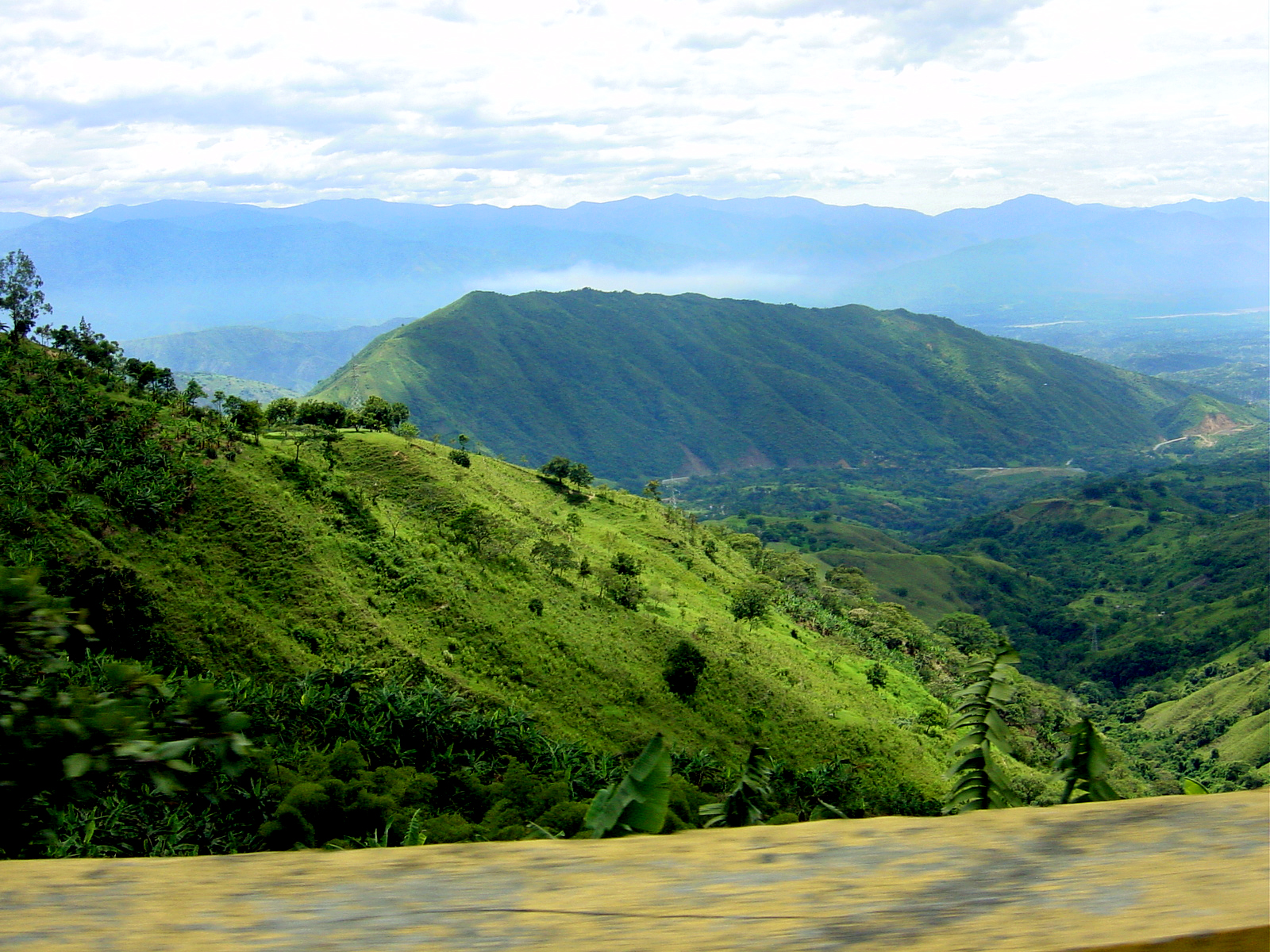 Image captured by uploader on October 06